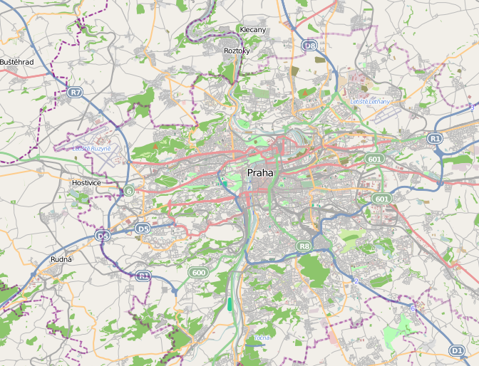 OpenStreetMap image of map of Prague, 50°04′19″N 14°28′52″E / 50.072°N 14.481°E, from OpenStreetMap cut-out (or derivative work based on it): without further description This cut-out may be incomplete, and may contain errors, or may be obsolete. Don't rely solely on it for navigation. See the image in the present state and its original context on the OpenStreetMap wiki page for OSM-2009_08-Praha.png